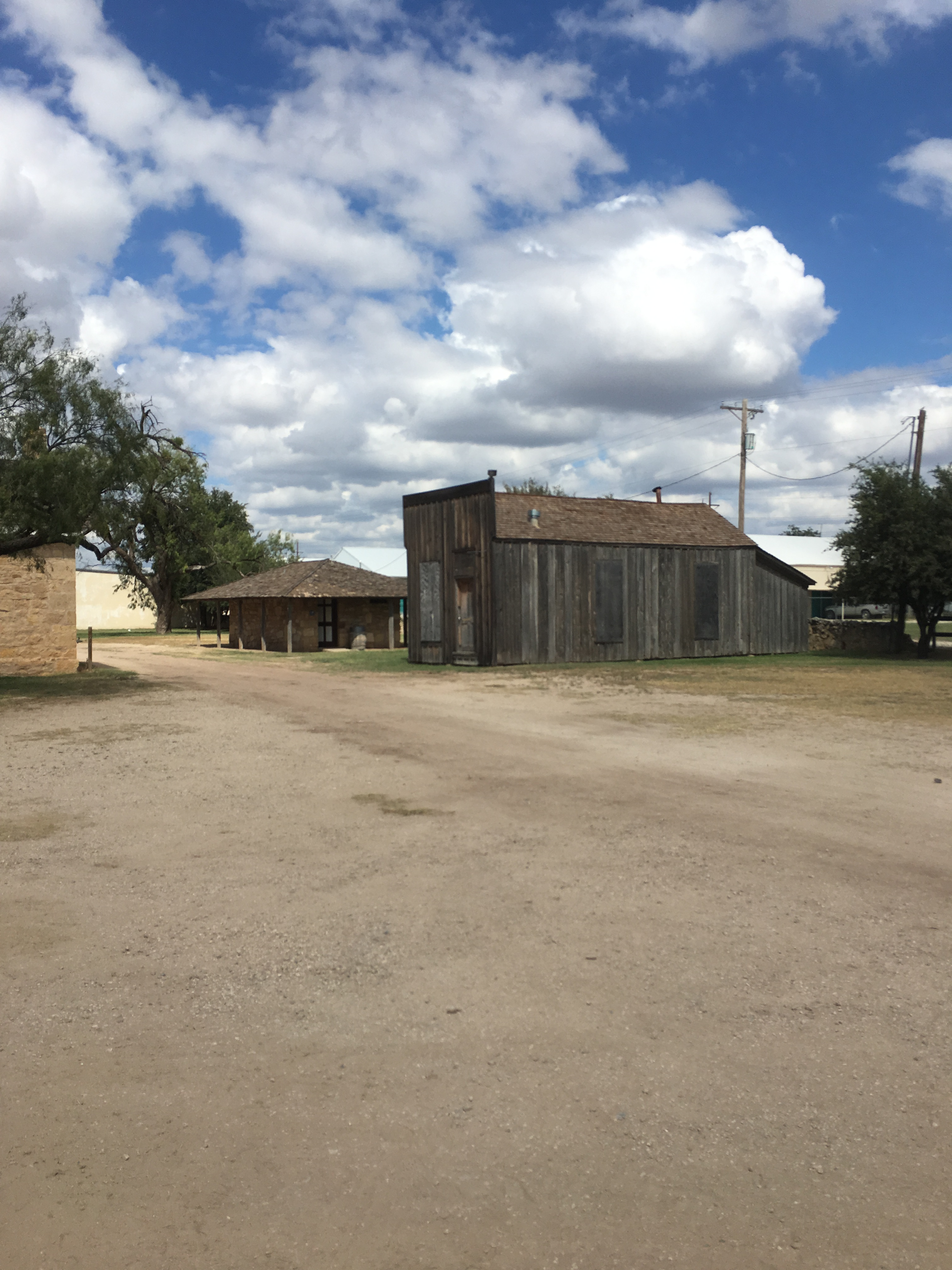 The house of Oscar Ruffini, civic architect, moved to Fort Concho in the mid-20th century.